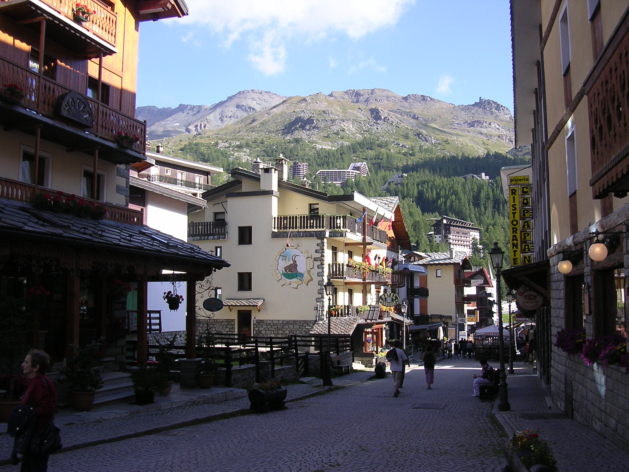 Rue Jean-Antoine Carrel in Breuil-Cervinia (Aosta valley - Italy)